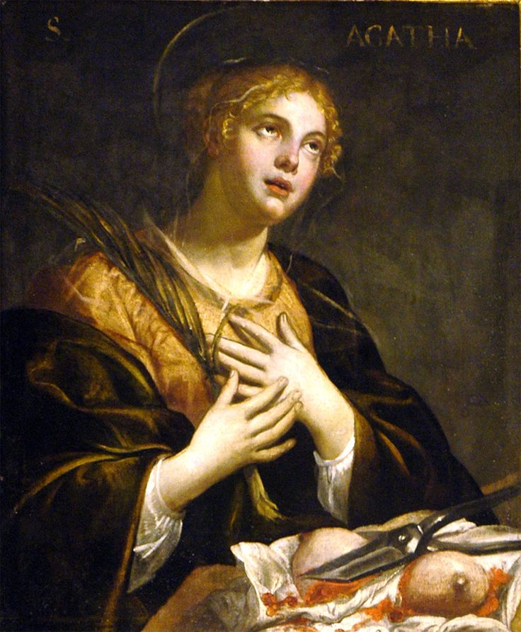 Sant'Agata con la palma del martirio